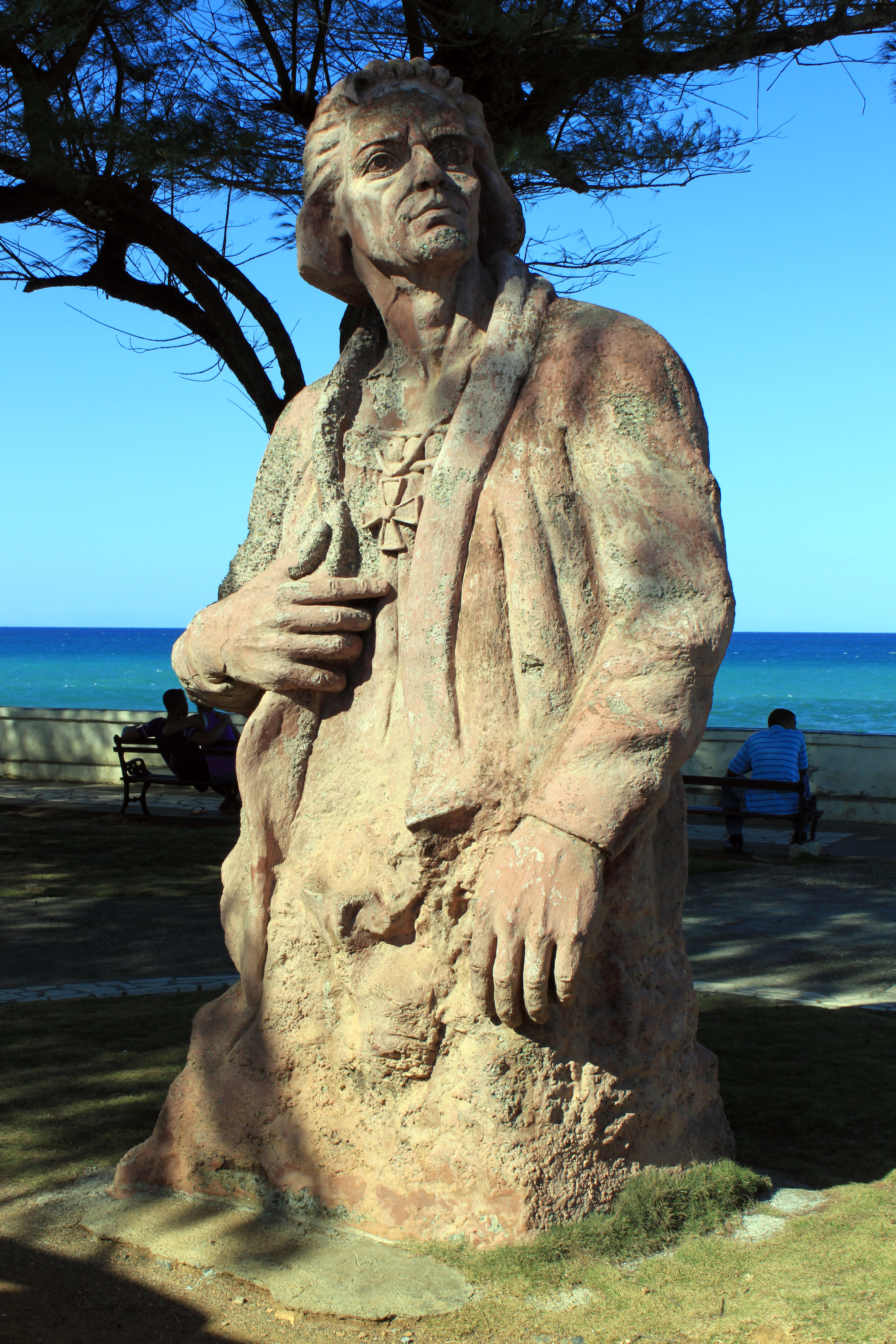 Coast of Baracoa, Guantanamo Province, Cuba: Statue of Christopher Columbus